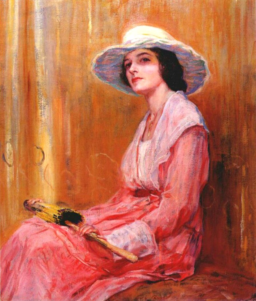 The Model, oil on canvas, private collection